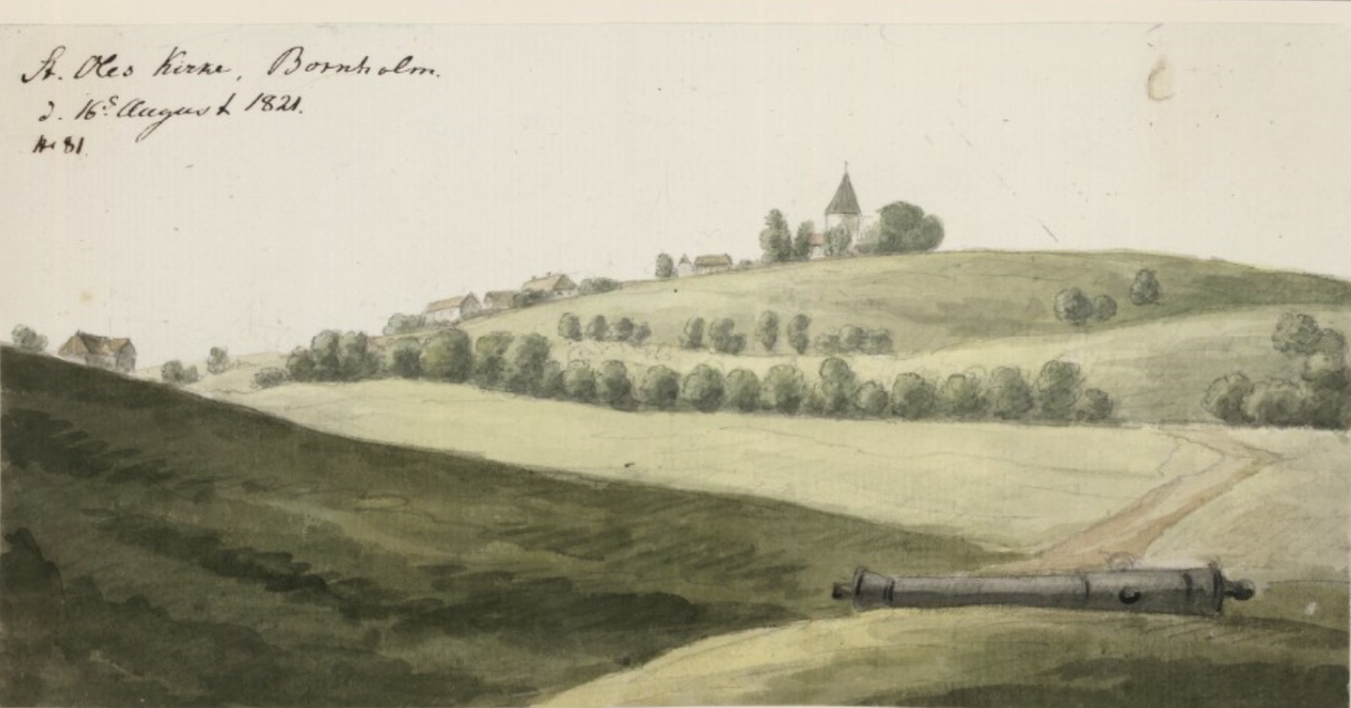 St. Oles Kirke, Bornholm. d. 16. Aug. 1821. No. 81